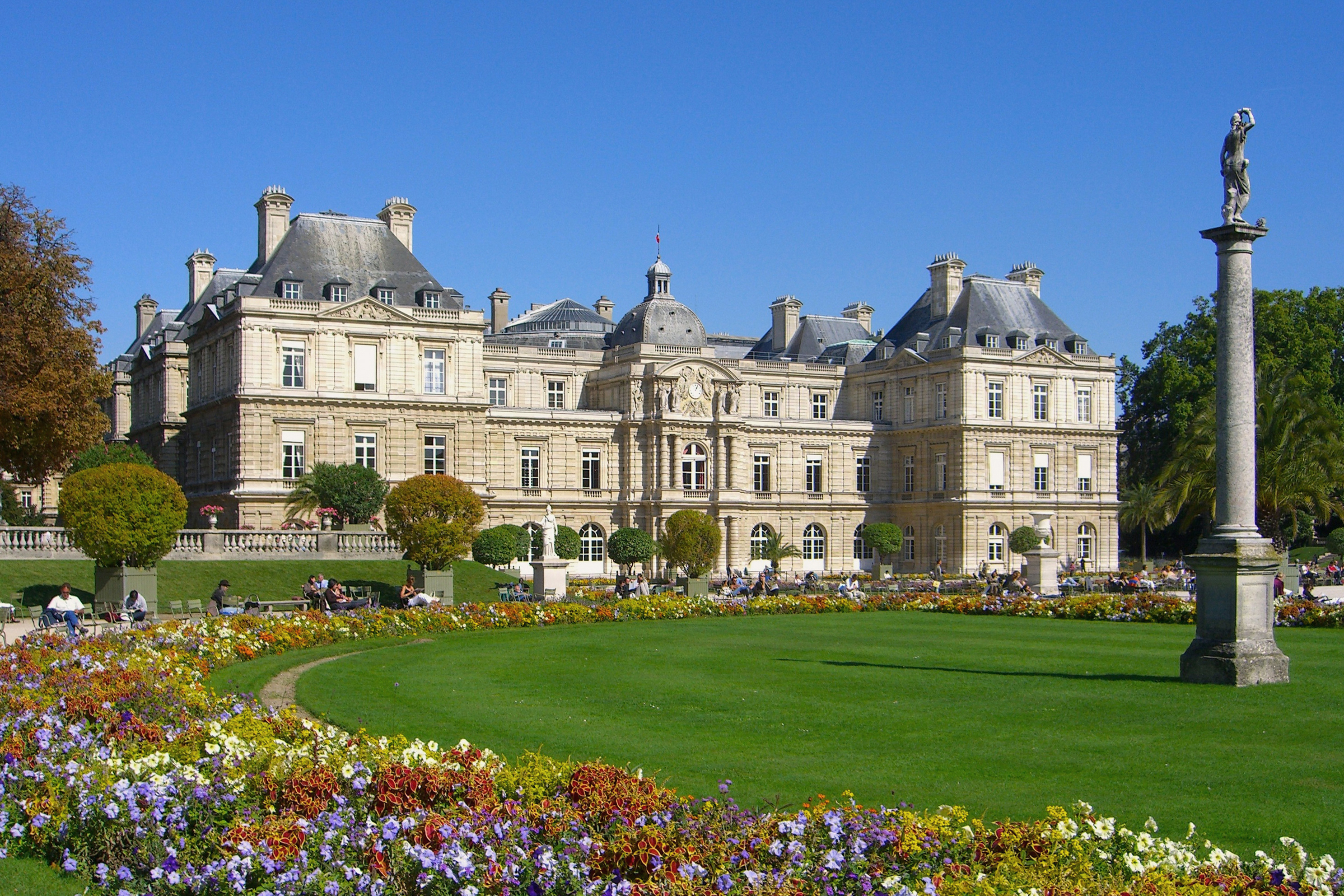 Palais du Luxembourg